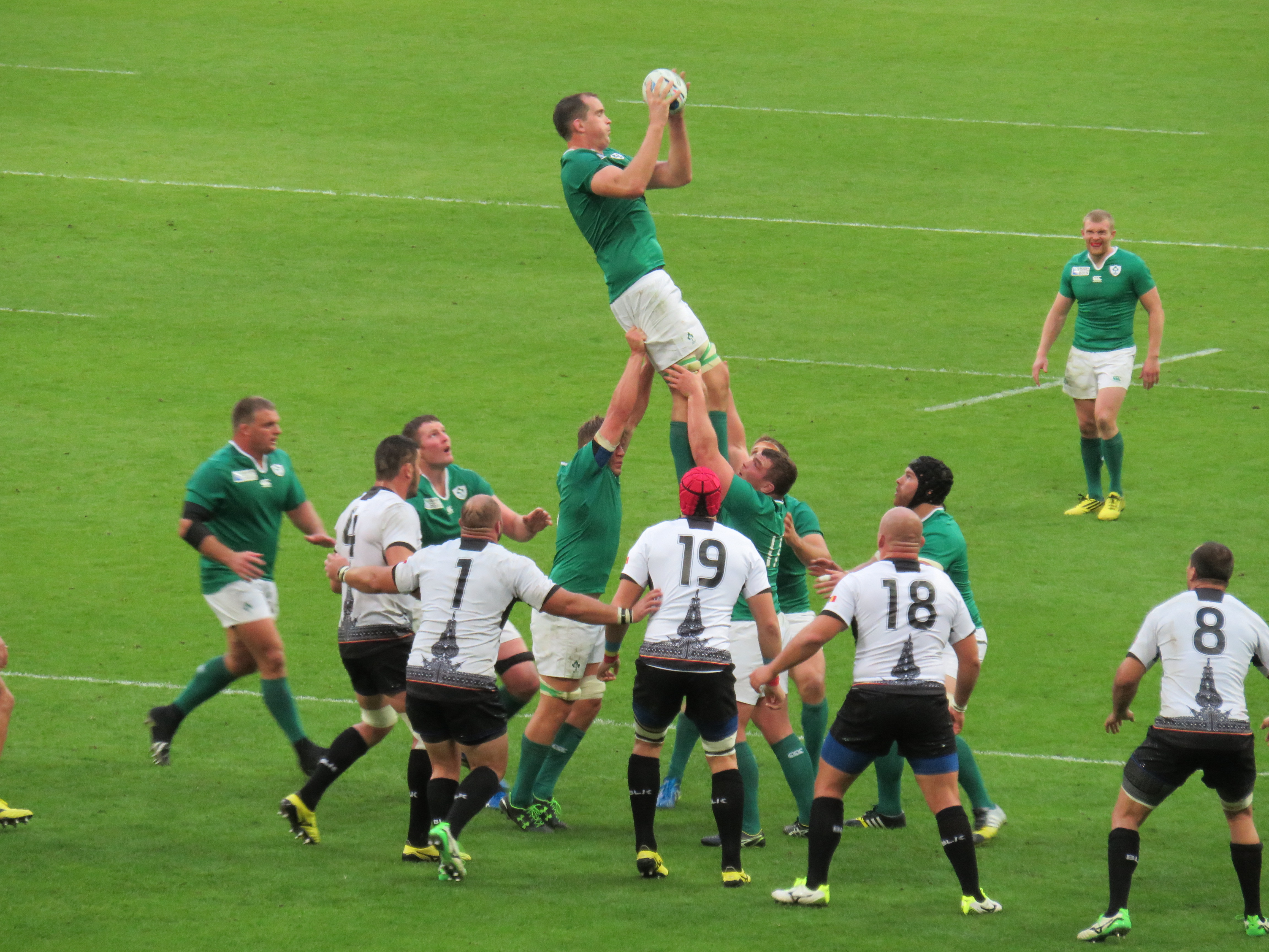 2015 Rugby World Cup game Ireland vs Romania at Wembley Stadium, London.